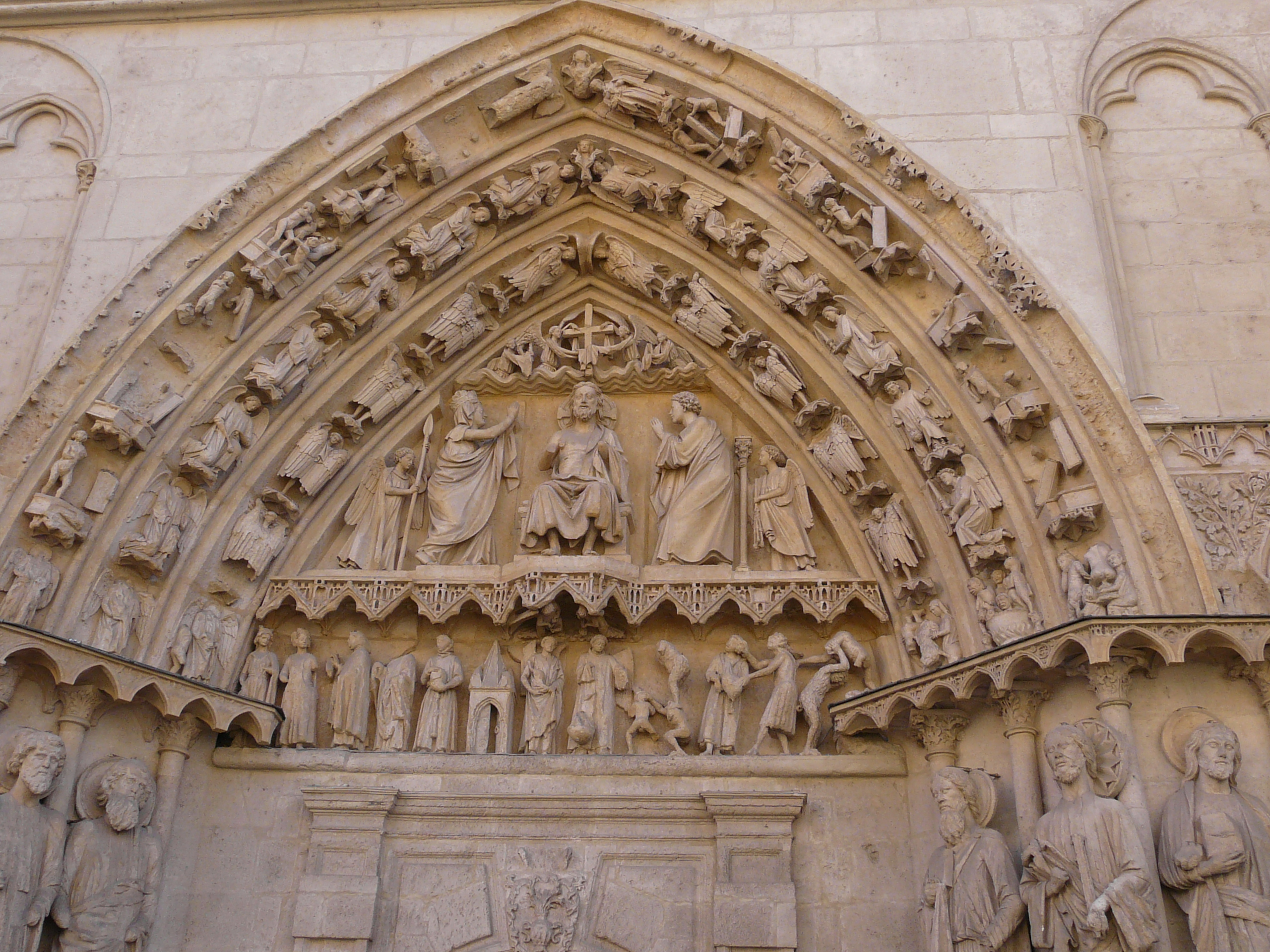 Burgos Cathedral. Portada de la Coronería. Portal. Tympanum detail. Deesis